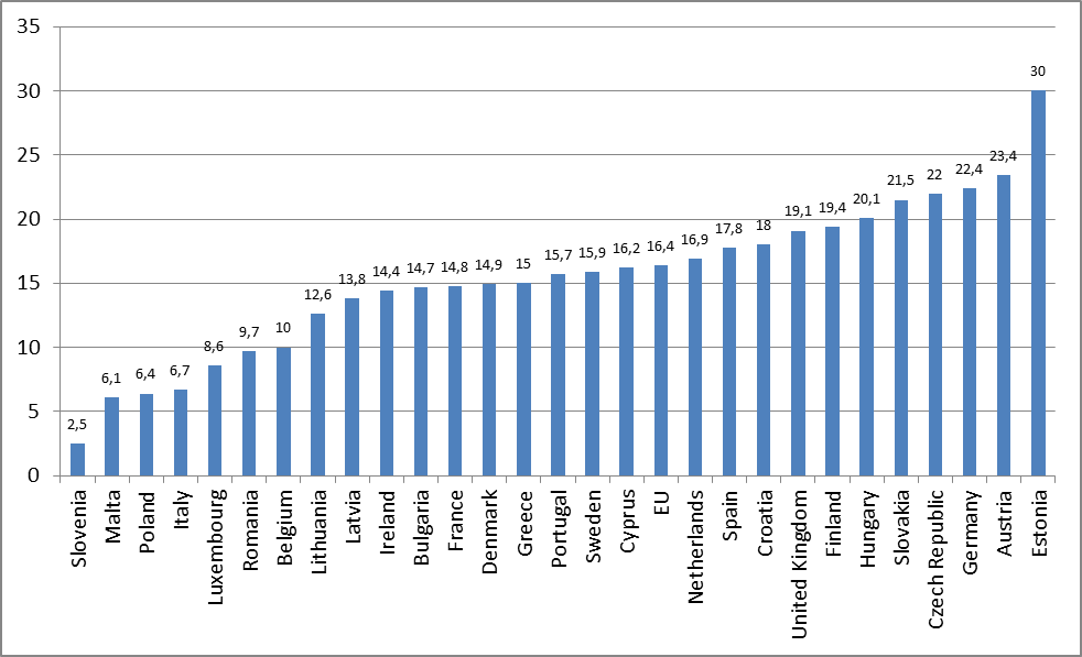 Gender pay gap across EU countries